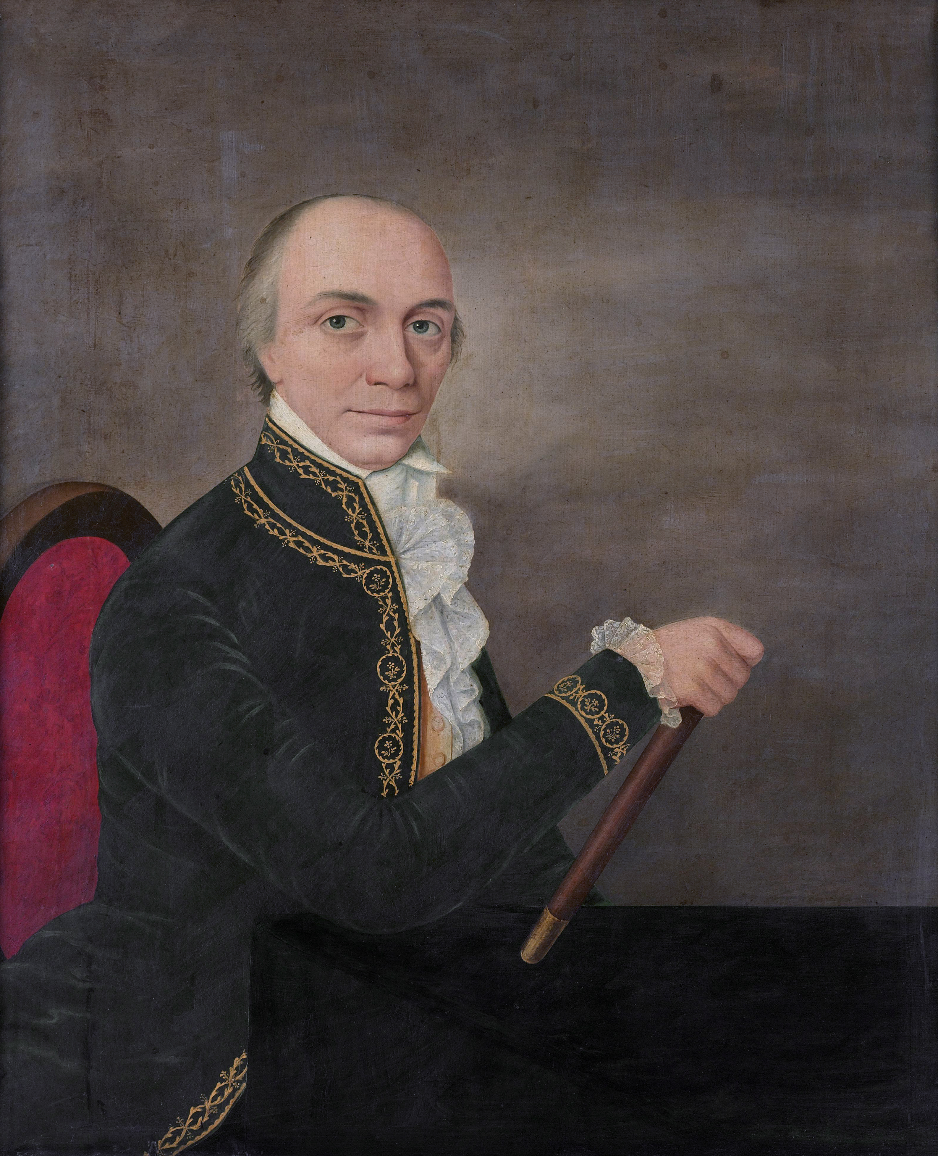 Depicted person: Johannes Siberg (1740-1817). – Gouverneur-generaal from 1801 to 1805